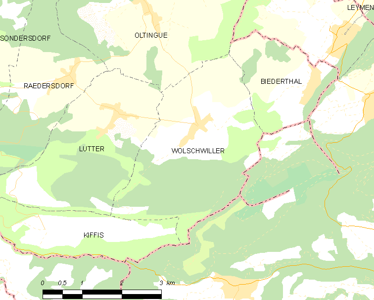 Map of French municipality